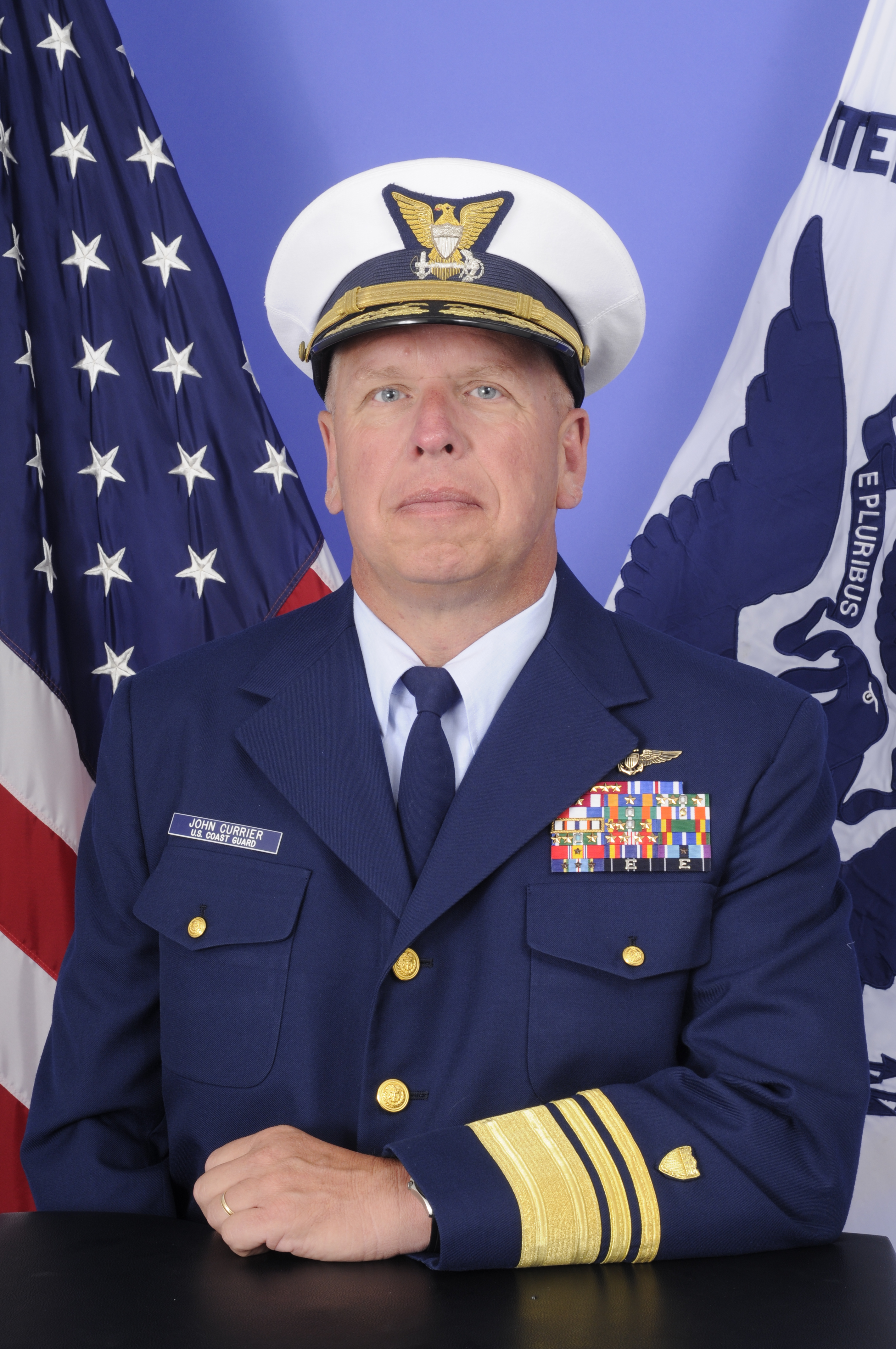 Official portrait of VADM John P. Currier, Vice-Commandant of the Coast Guard